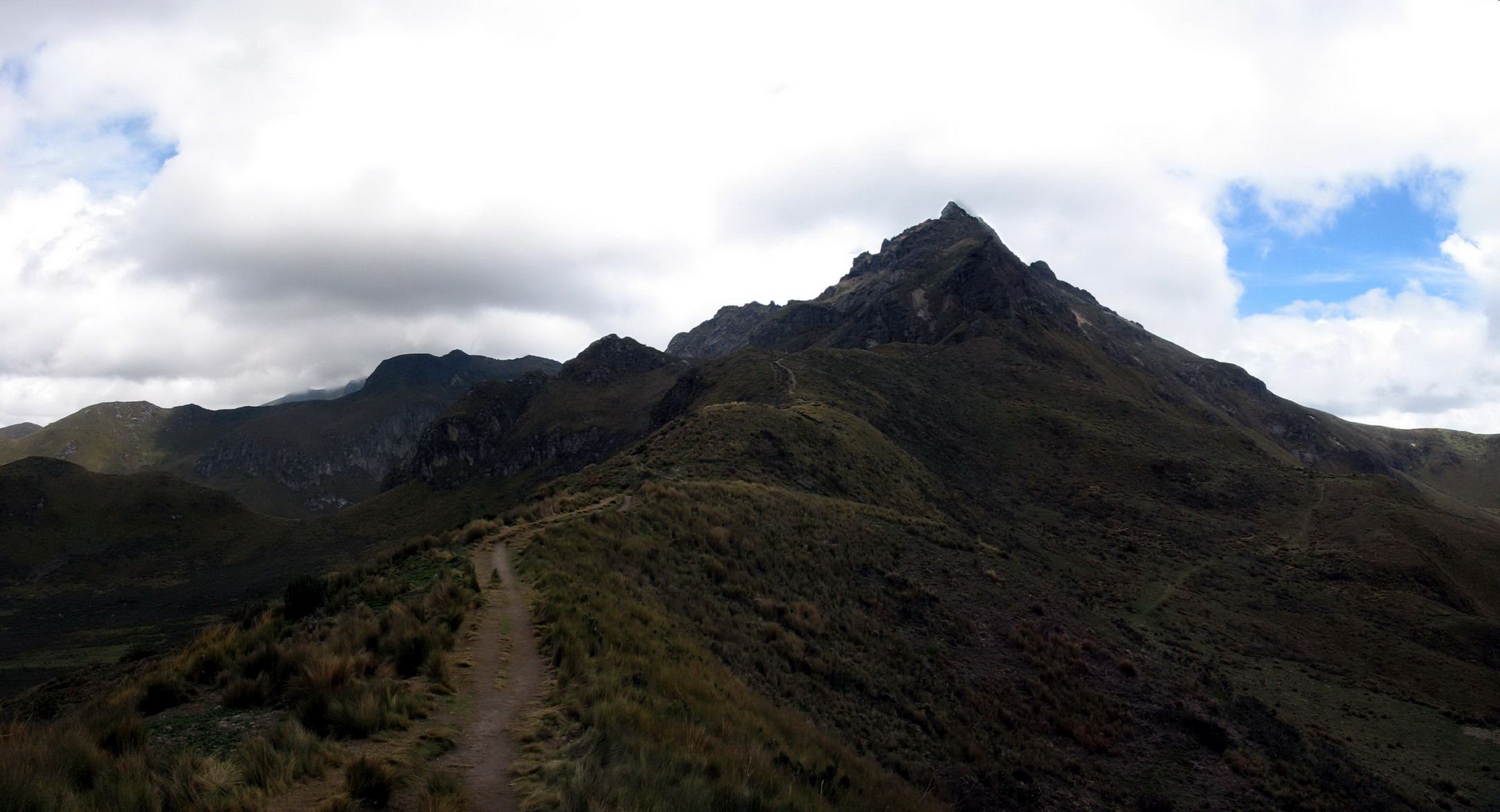 Volcano Pichincha Rucu (4,698 m), seen from a trail to the top starting at the end of the TeleferiQo in Quito, Ecuador.